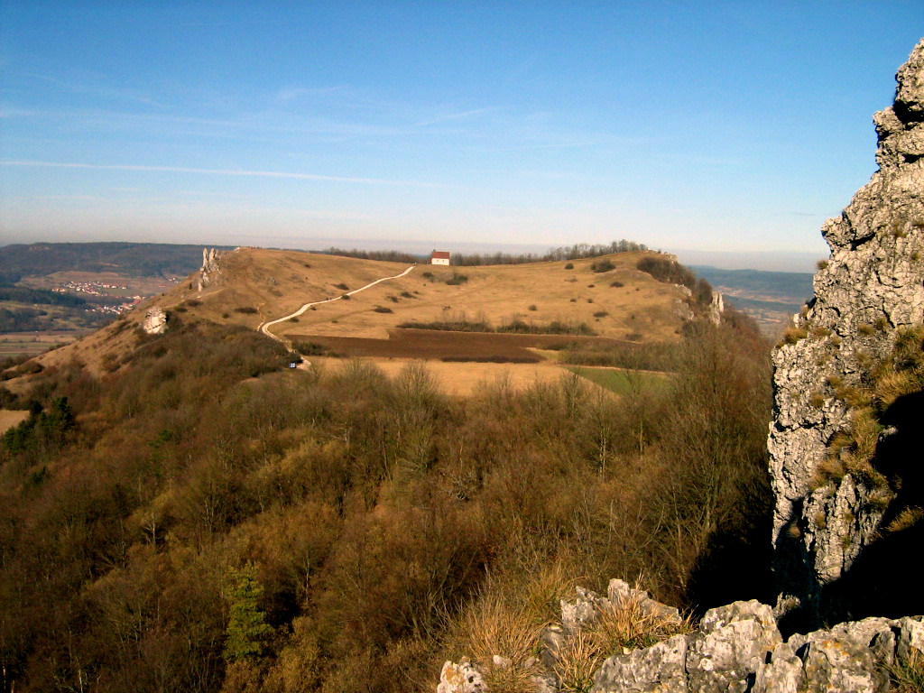 mountain Walberla (Ehrenbürg)